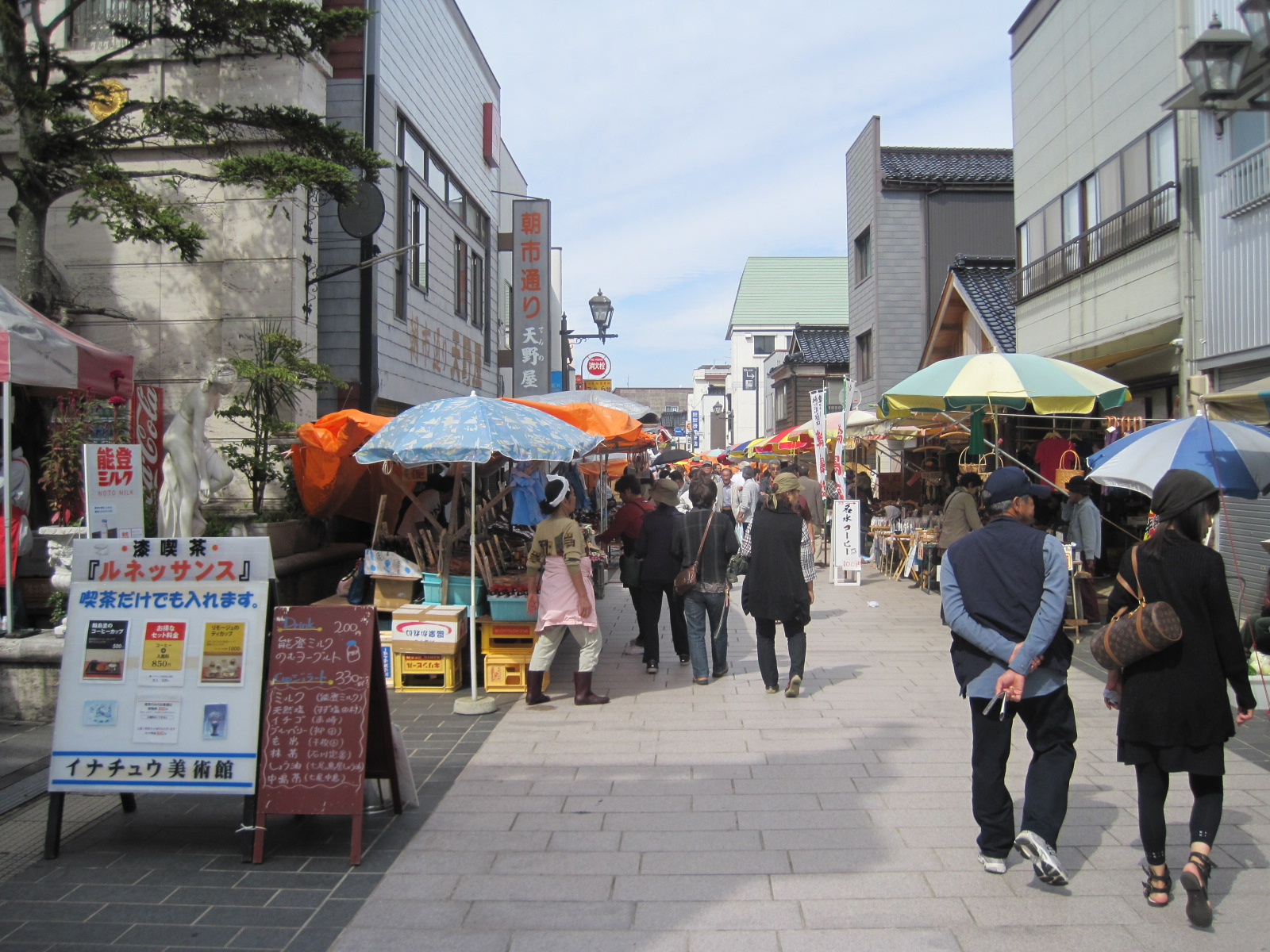 Wajima Asaichi(street stalls of Wajima city, Ishikawa prefecture)